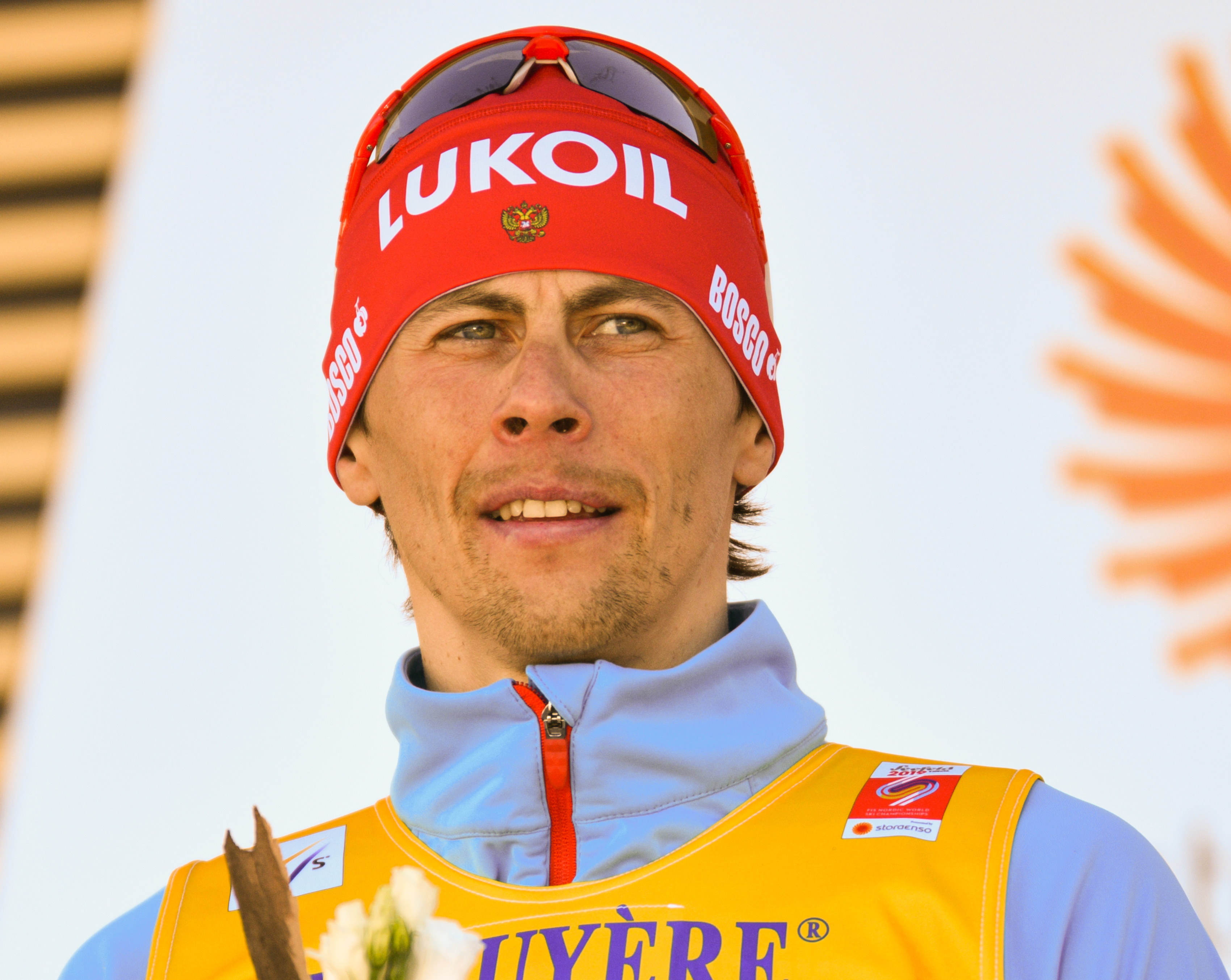 FIS Nordic World Ski Championships Seefeld 2019 - Men 15km Interval Start Classic. Picture shows Flower Ceremony, Alexander Bessmertnykh (RUS).